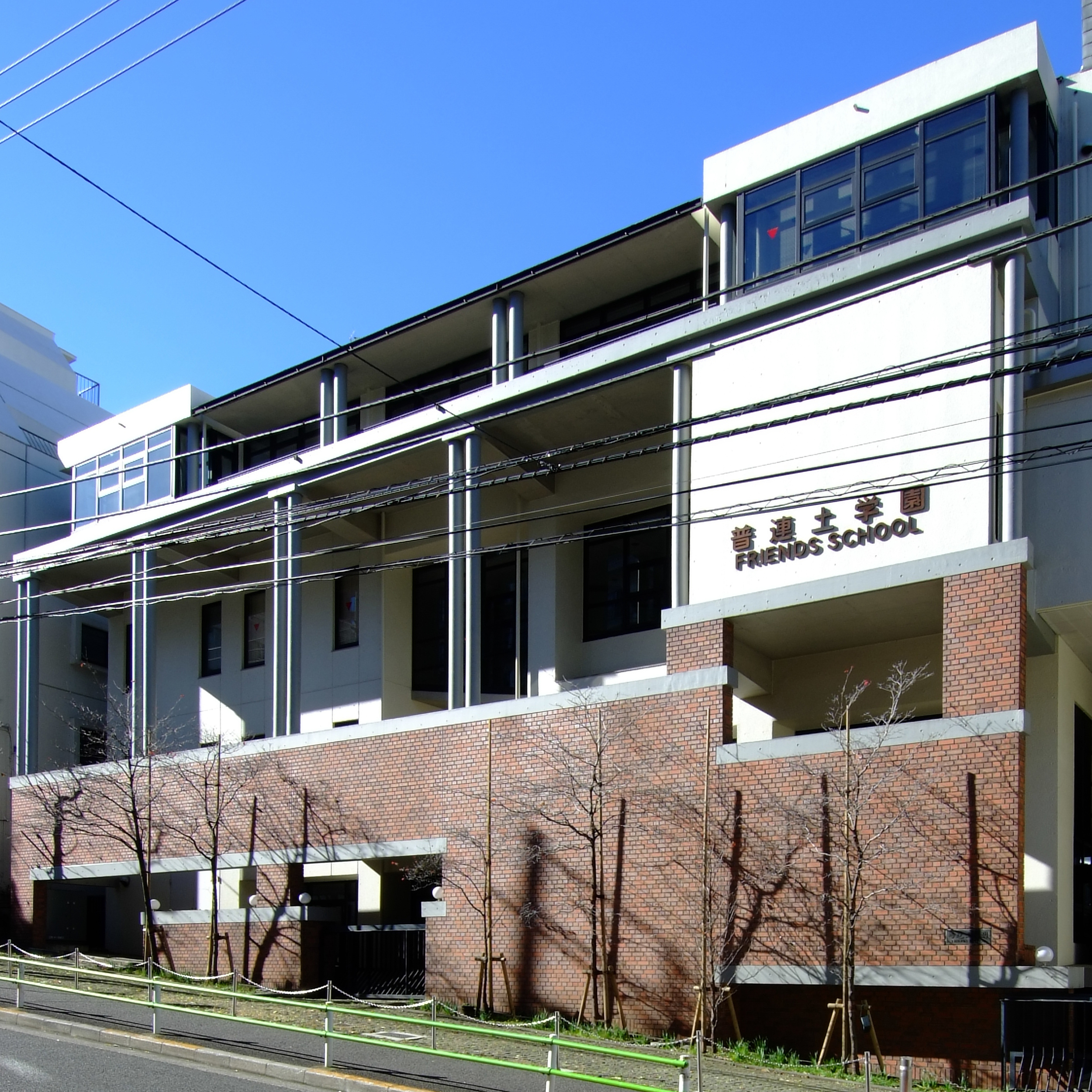 Friends School (Japan), at Mita Tokyo Japan, design by Hiroshi Oe in 1968.